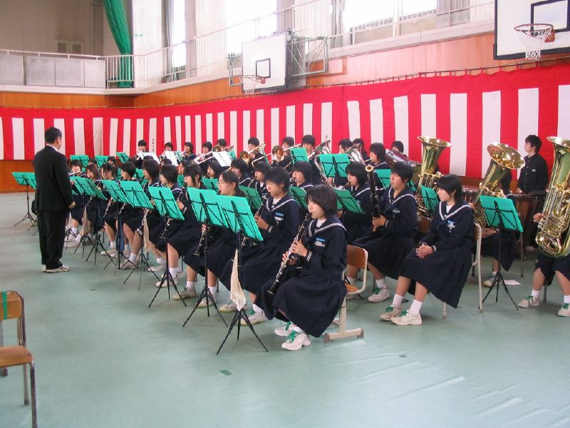 Junior High School Students band at Demachi Jr. High, Tonami City, Toyama, JAPAN 富山県砺波市立出町中学校.